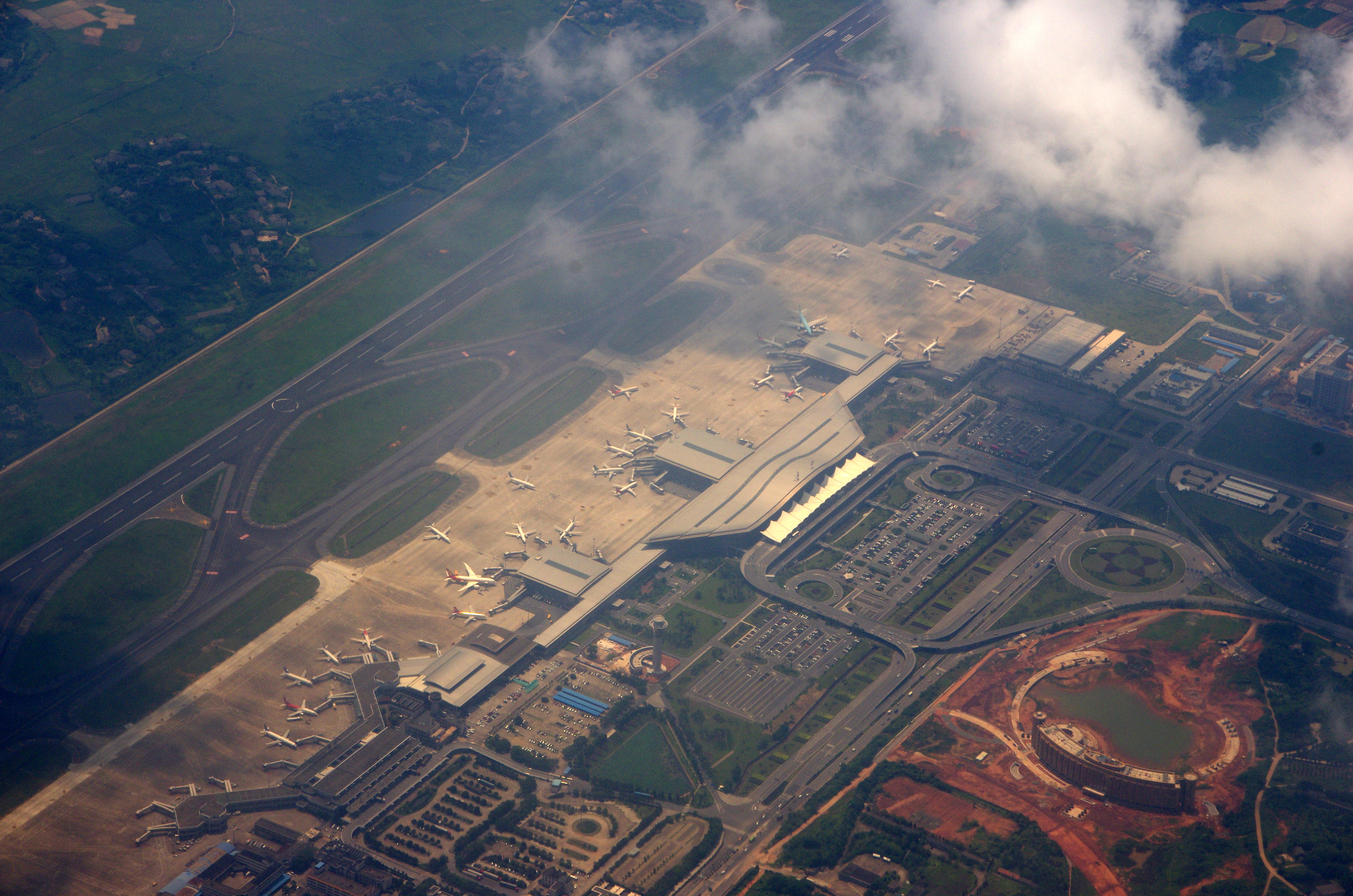 An aerial view of Terminals 1 and 2